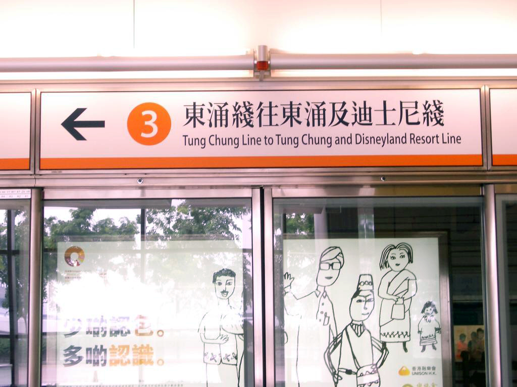 Signpost in Nam Cheong Station Platform 3, Hong Kong